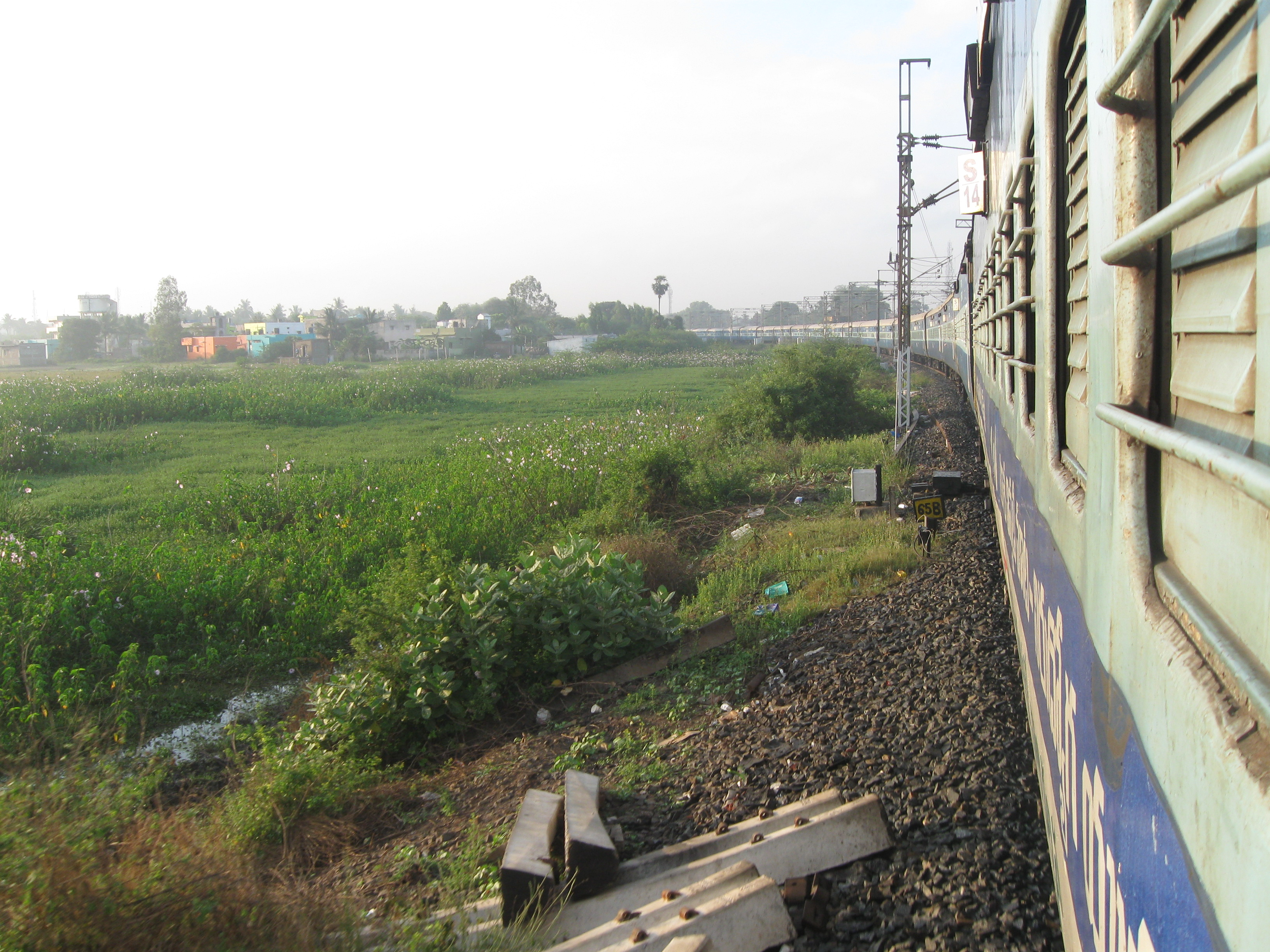 Charminar Express cruising near Gummidipoondi, near Chennai